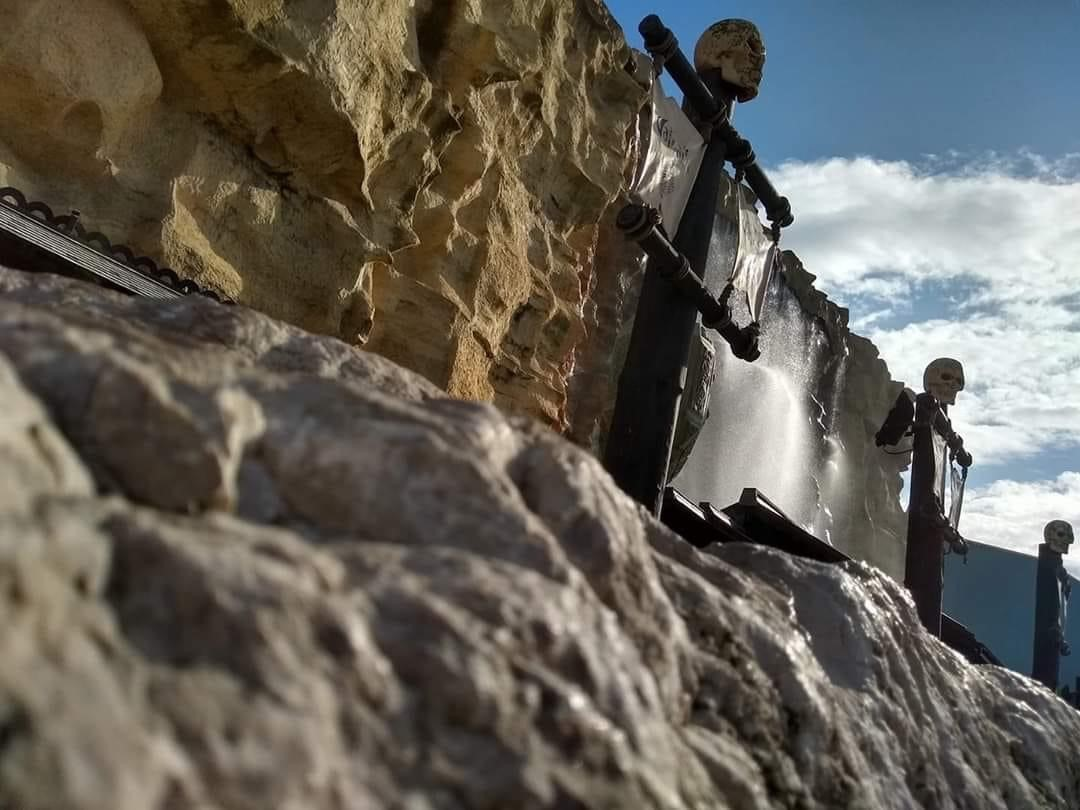 Valhalla as taken by photographer Ben Jenks at Blackpool Pleasure Beach.